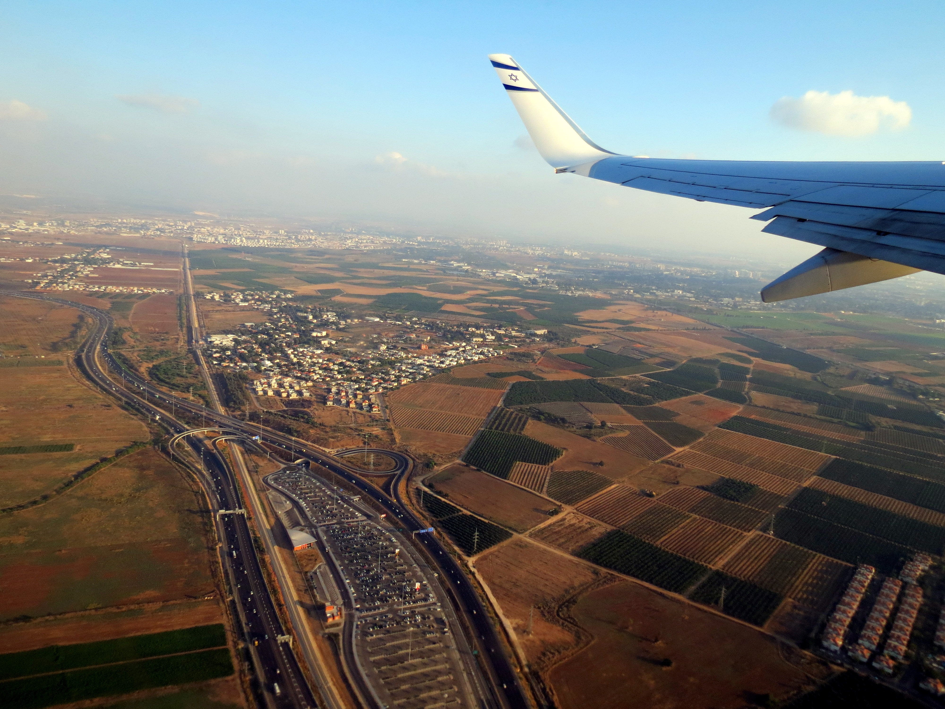 Park and Go on Highway 1 in Israel.